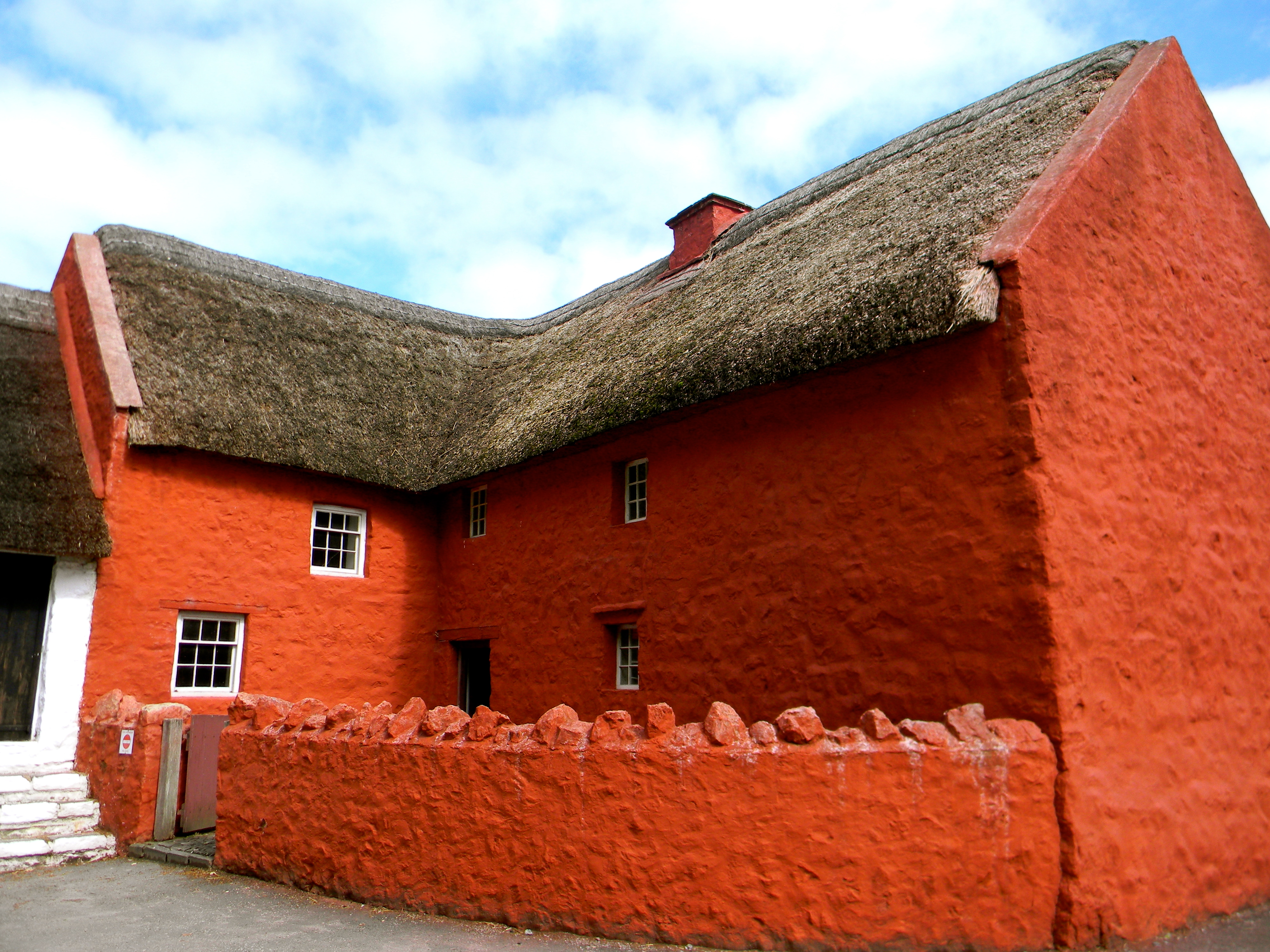 St Fagans, Cardiff CF5, UK